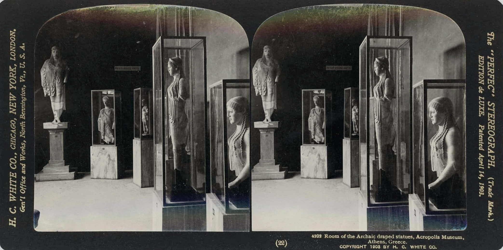 National Archaelogical Museum Athens 1903